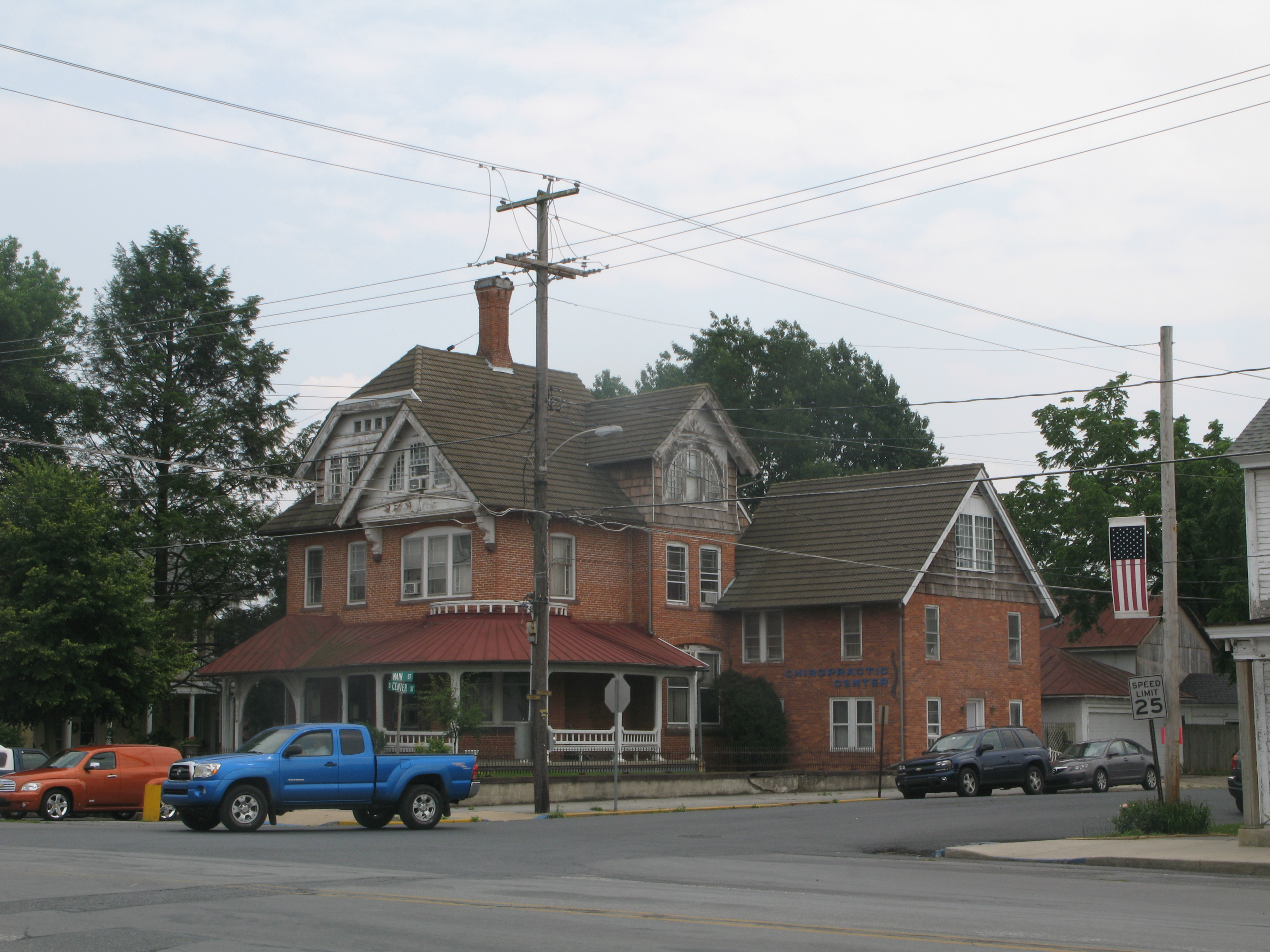 Fredericksburg, Pennsylvania a census-designated place in Bethel Township, Lebanon County, Pennsylvania